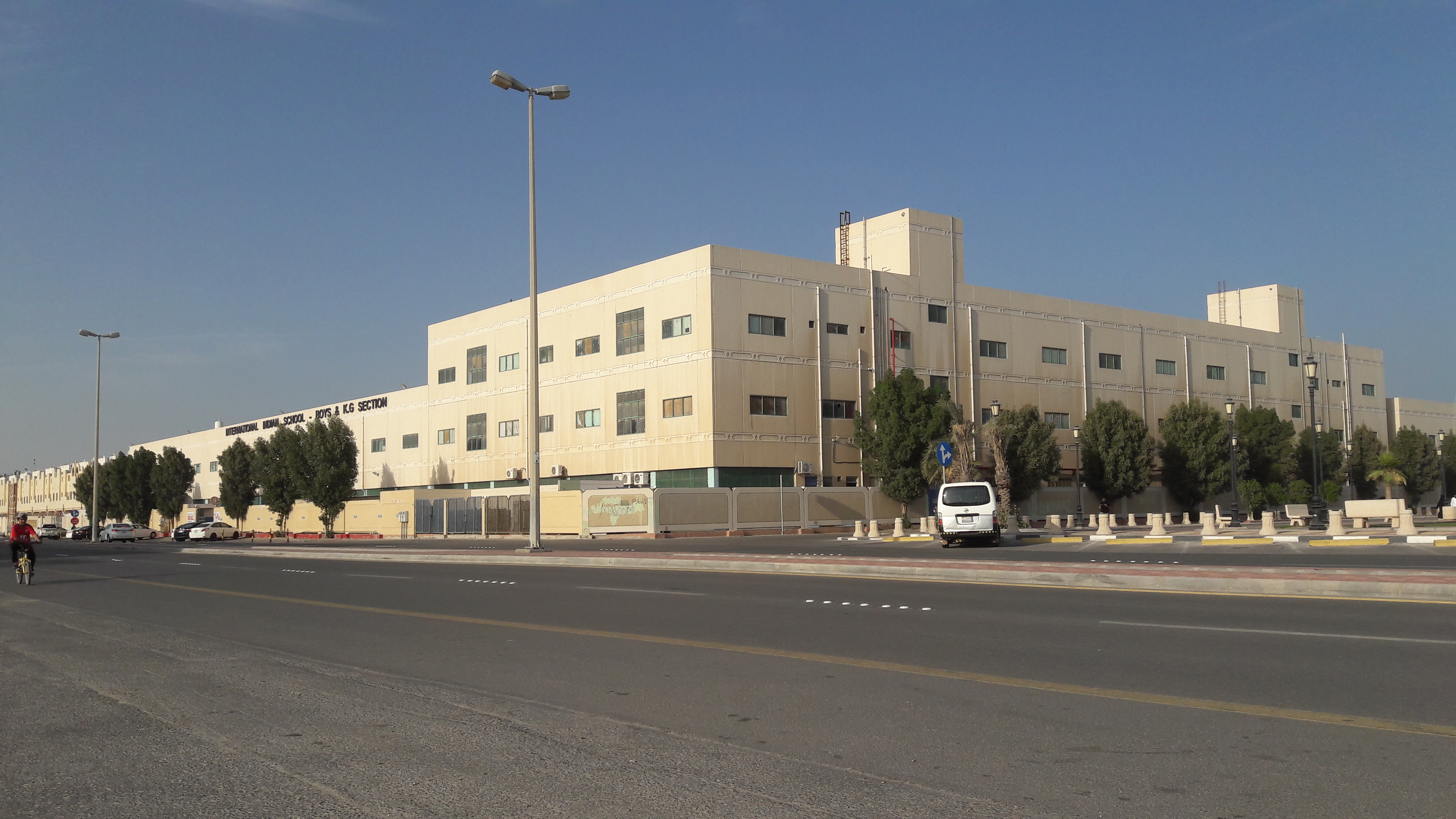 Corner view of Boys and KG section of International Indian School, Dammam